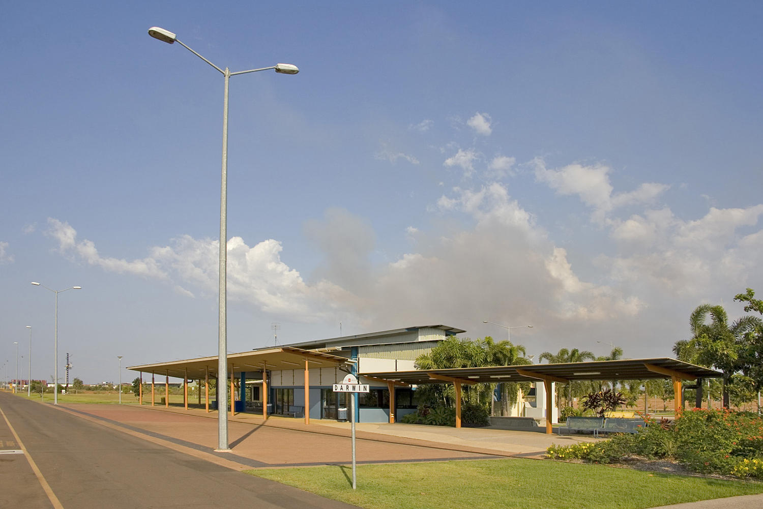 Darwin Railway Station